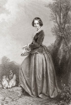 Lady Dorothy Nevill (1826-1913), Hostess, horticulturalist and collector